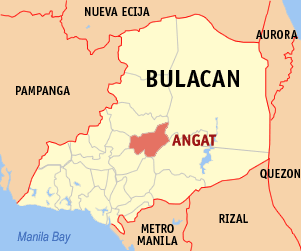 Map of Bulacan showing the location of Angat